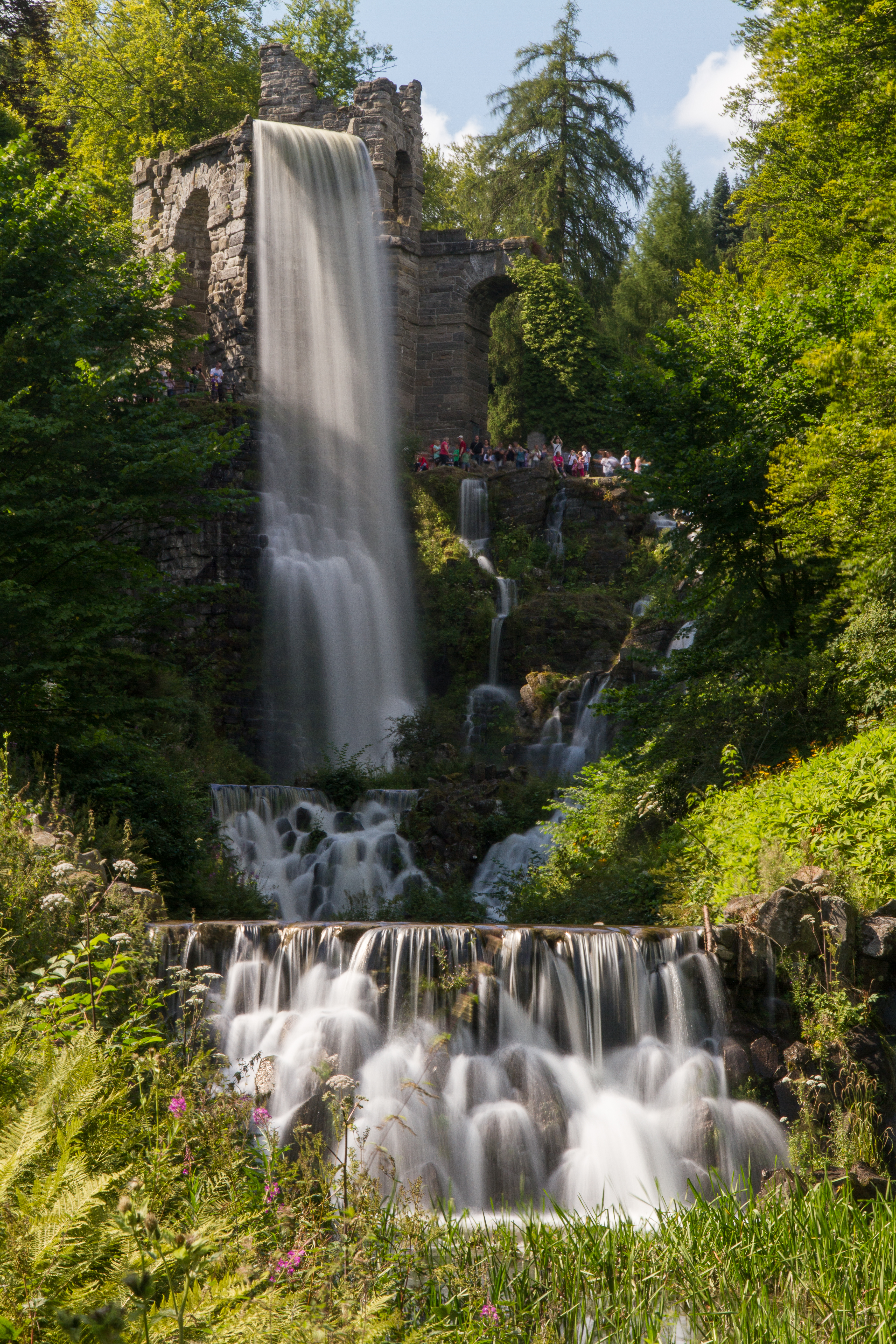 Aquädukt in Bergpark near Kassel duging water arts.This is a photograph of an architectural monument.